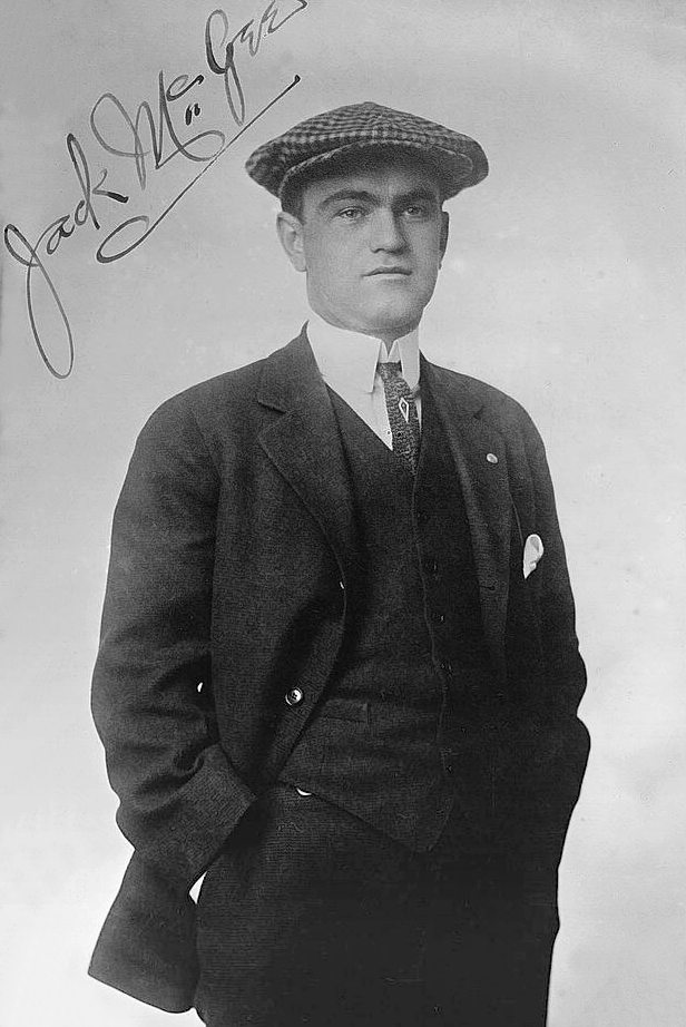 Bain News Service,, publisher. Jack McGee circa 1913 [no date recorded on caption card] 1 negative : glass ; 5 x 7 in. or smaller. Notes: Title from unverified data provided by the Bain News Service on the negatives or caption cards. Forms part of: George Grantham Bain Collection (Library of Congress). Format: Glass negatives. Repository: Library of Congress, Prints and Photographs Division, Washington, D.C. 20540 USA, General information about the Bain Collection is available at Persistent URL: Call Number: LC-B2- 2673-11a